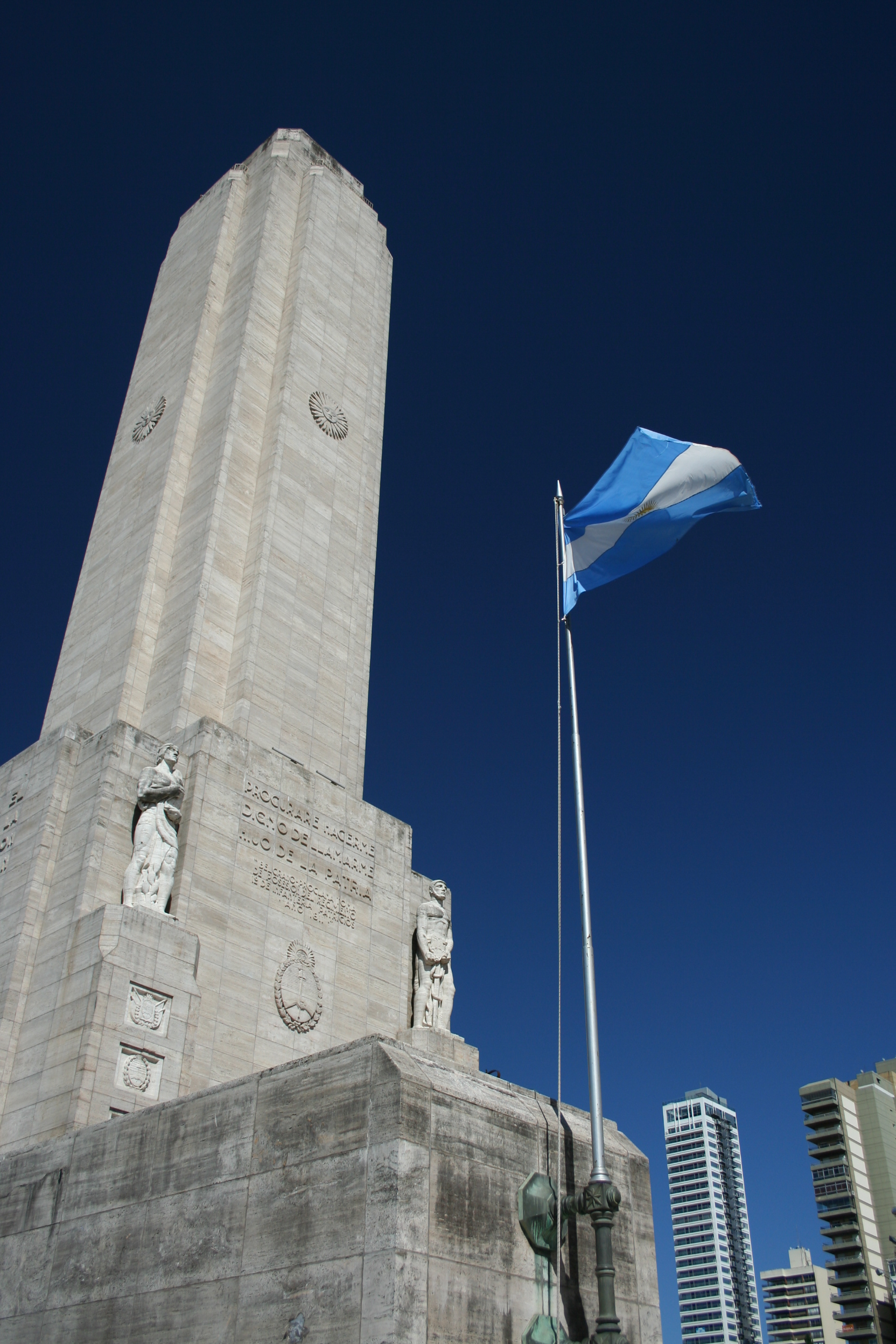 National Flag Memorial, Rosario, Argentina